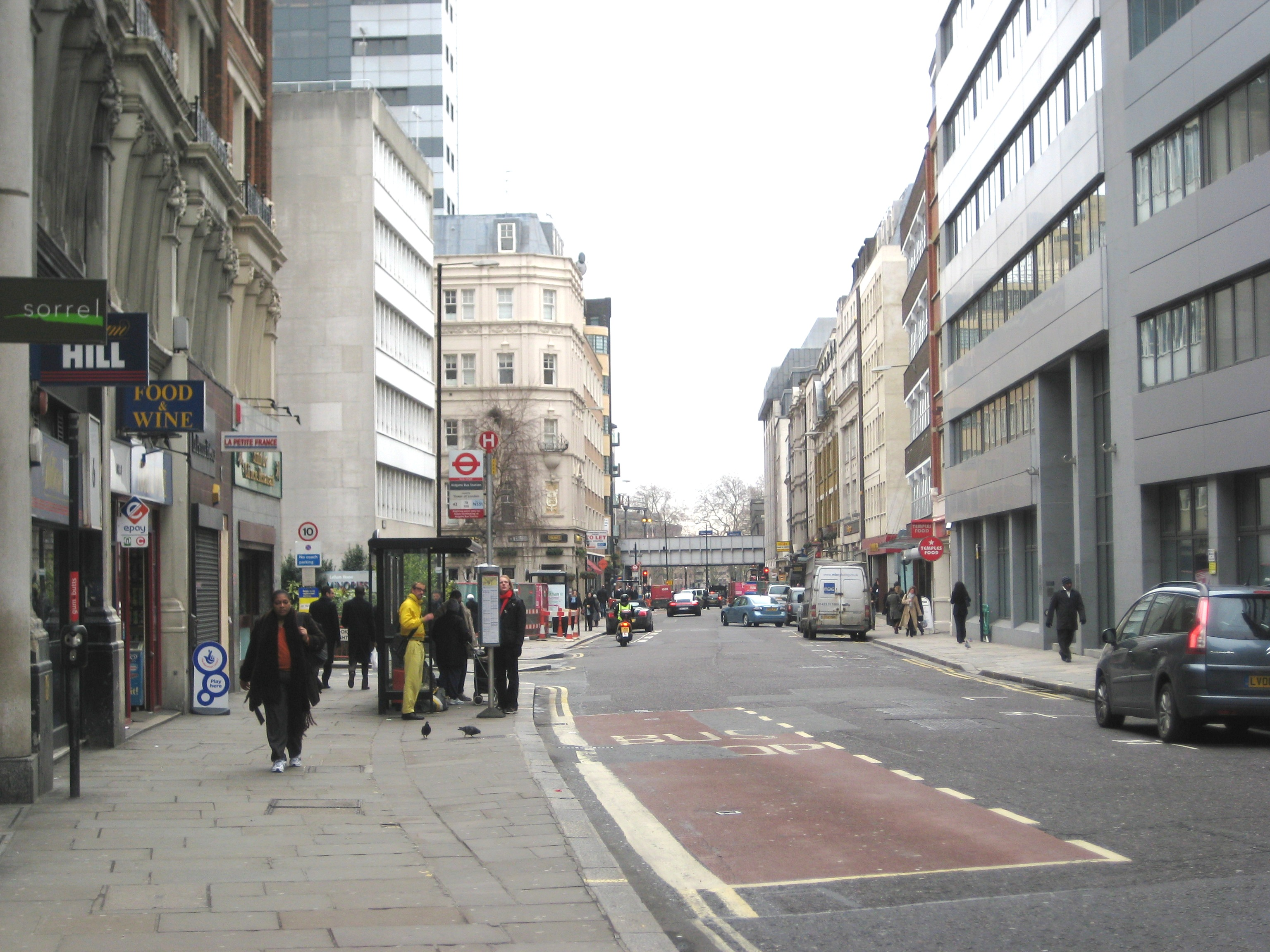 Minories, EC3